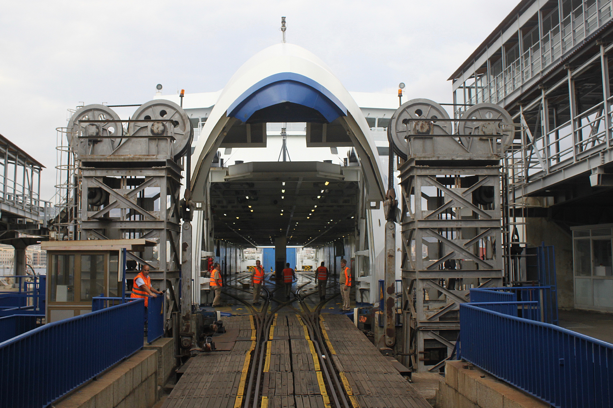 Ferry-boat "Messina" at Messina Marittima railway station seen from the first coach of ICN 35142 from Catania C.le to Milano C.le.